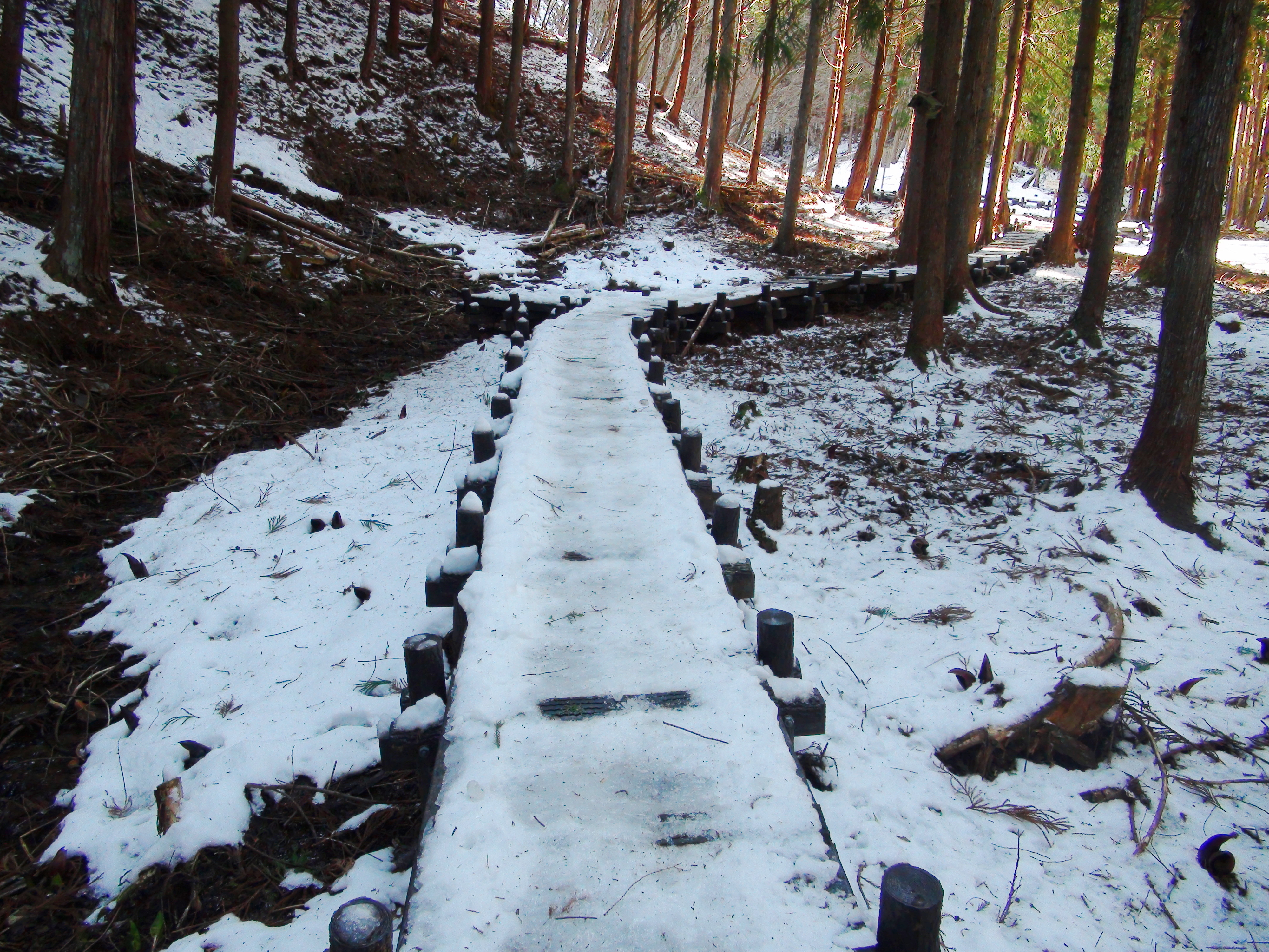 Walk road of Eastern Skunk Cabbage Takemori Koshu-City